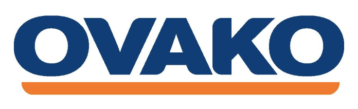 Ovako Logo